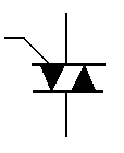 Symbol of a triac